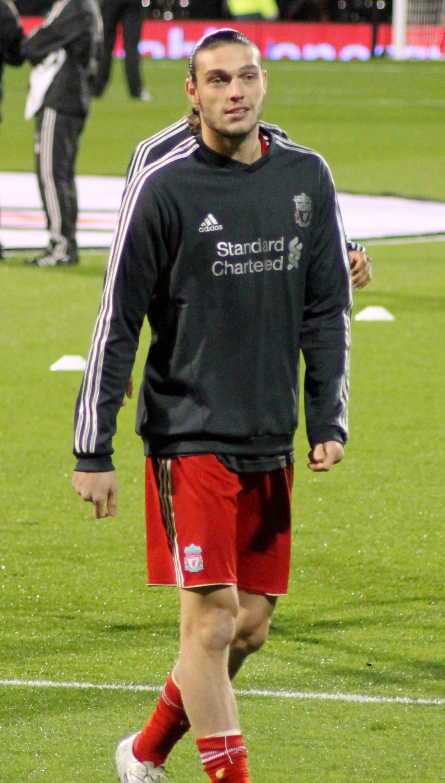 Carroll warming up before the Fulham vs Liverpool game